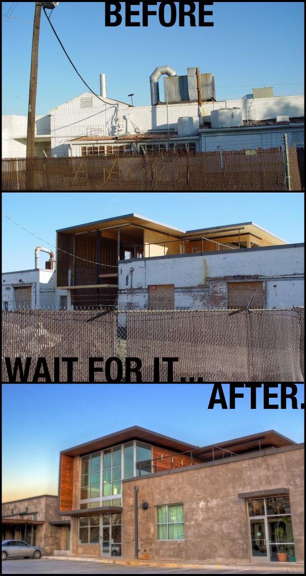 This image shows what the former warehouse building used to look like before it was transformed and reconstructed into the functional turnkey animation production studio, Janimation.